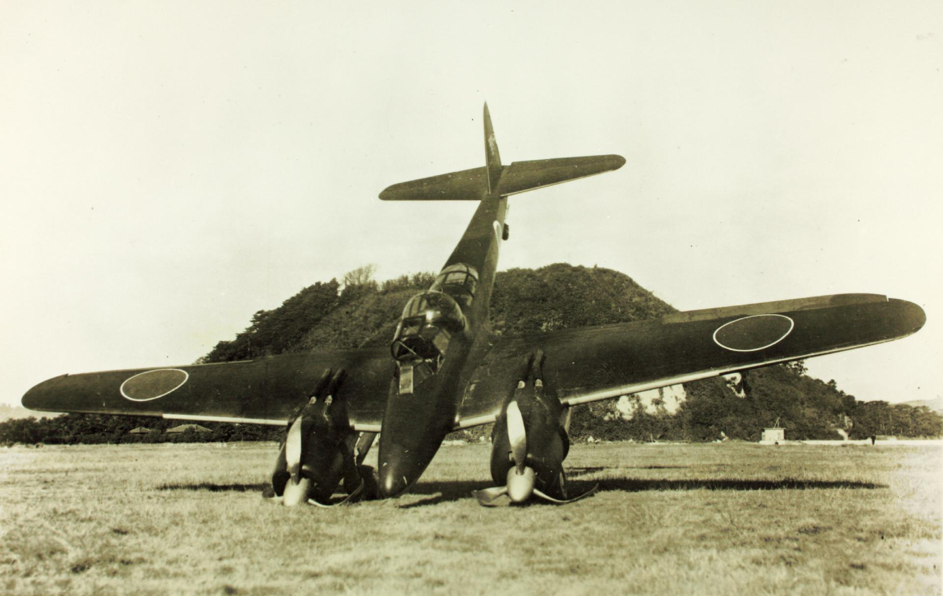 J1N1-R Gekko (Moonlight) Reconnaissance variant with spherical 20MM turret immediately rear of pilot.